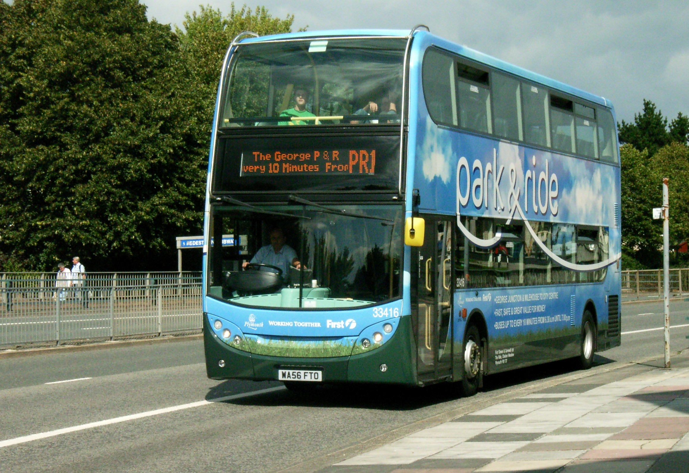 29 August 2007 Western Approach Plymouth.